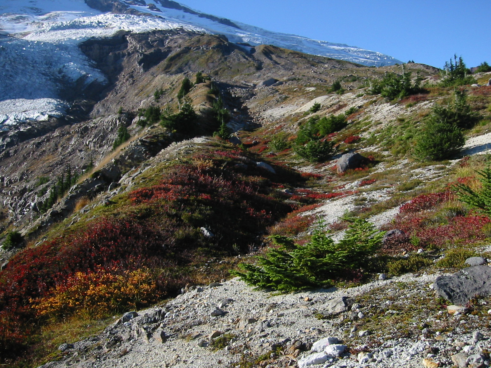 Boulder Glacier Boulder Ridge with old lateral moraines in the foreground; plants include huckleberry brush (red), heather and subalpine fir; is upper left and Park Glacier is along the right skyline.